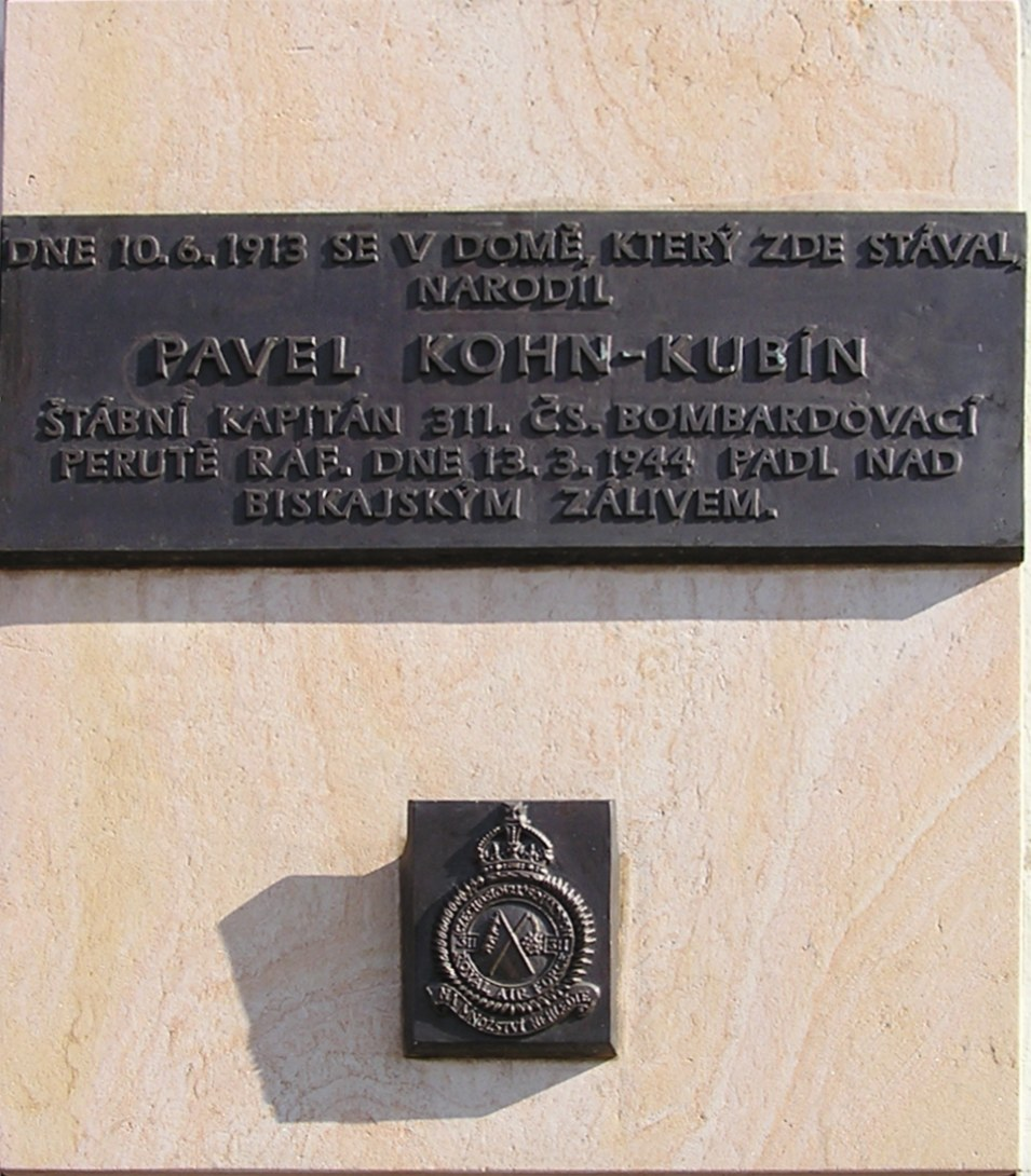 Pavel Kohn-Kubin commerorative plague on family house in Žamberk DNE 10. 6. 1913 SE V DOMĚ, KTERÝ ZDE STÁVAL NARODIL PAVEL KOHN-KUBÍN ŠTÁBNÍ KAPITÁN 311. ČS. BOMBARDOVACÍ PERUTĚ RAF. DNE 13. 3. 1944 PADL NAD BISKAJSKÝM ZÁLIVEM.